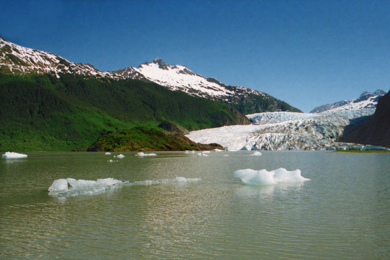 Juneau, Alaska, USA, Mendenhall Glacier